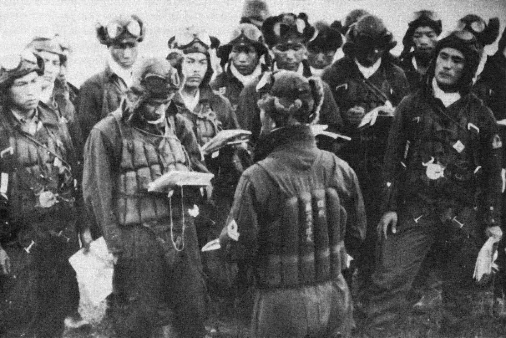 Zero fighter pilots from the Imperial Japanese Navy aircraft carrier Zuikaku prepare for a mission from Buin, Bougainville, Solomon Islands on April 7, 1943. The mission was to attack Allied aircraft and shipping in Savo Sound between Guadalcanal and Tulagi/Florida Islands.